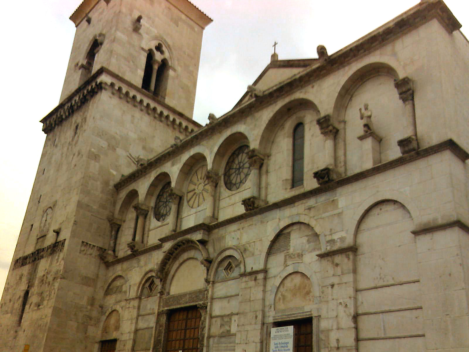 The façade of the Cathedral of Benevento